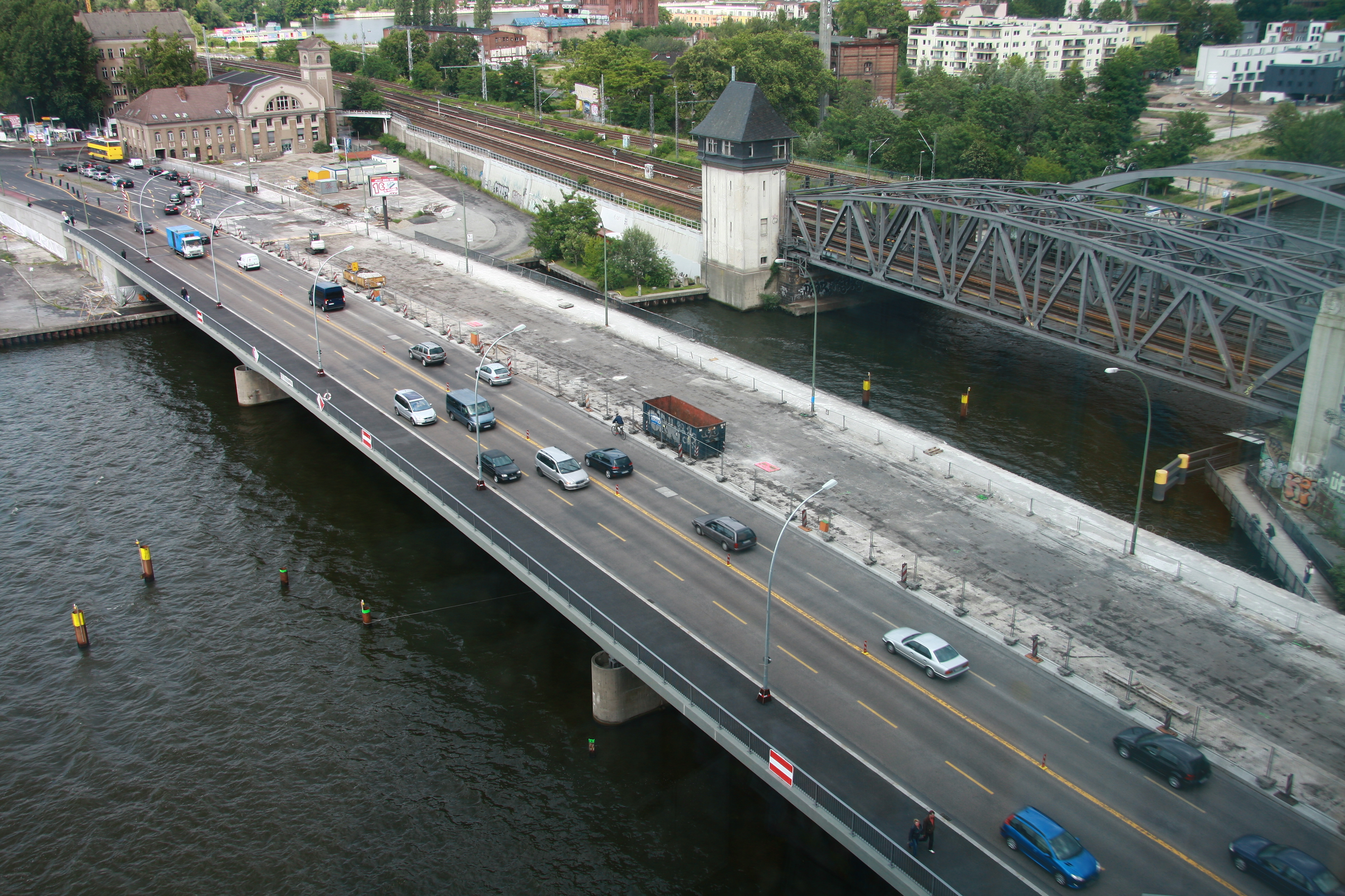 n/a